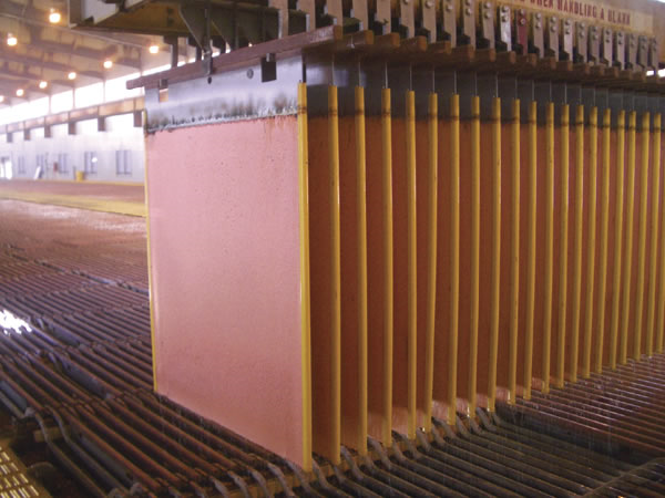 Photograph of a rack of Xstrata Technology's BRTM stainless steel cathode starter sheets for copper refining.